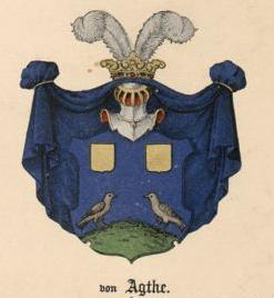 Coat of arms of Agthe family